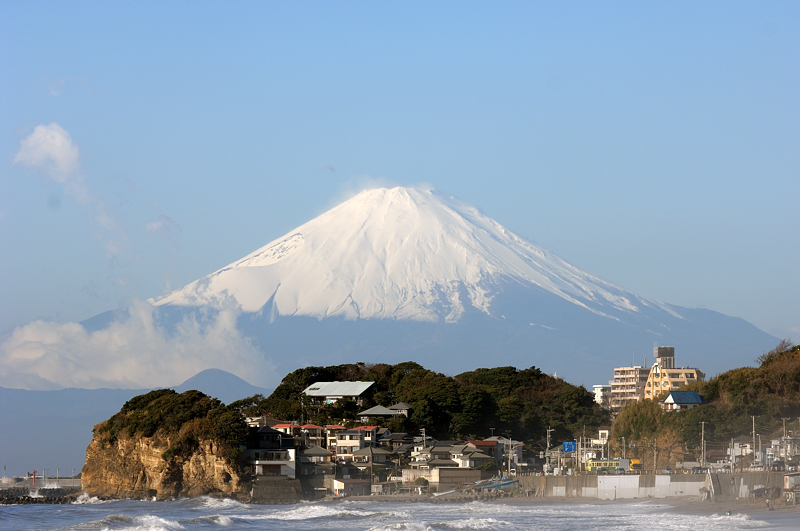 Fuji view from Shichirigahama Beach at Kamakura city